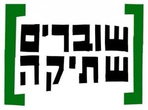 Breaking the Silence (BtS) (in Hebrew Shovrim Shtika) logo. Shovrim Shtika is an Israel human rights organization.